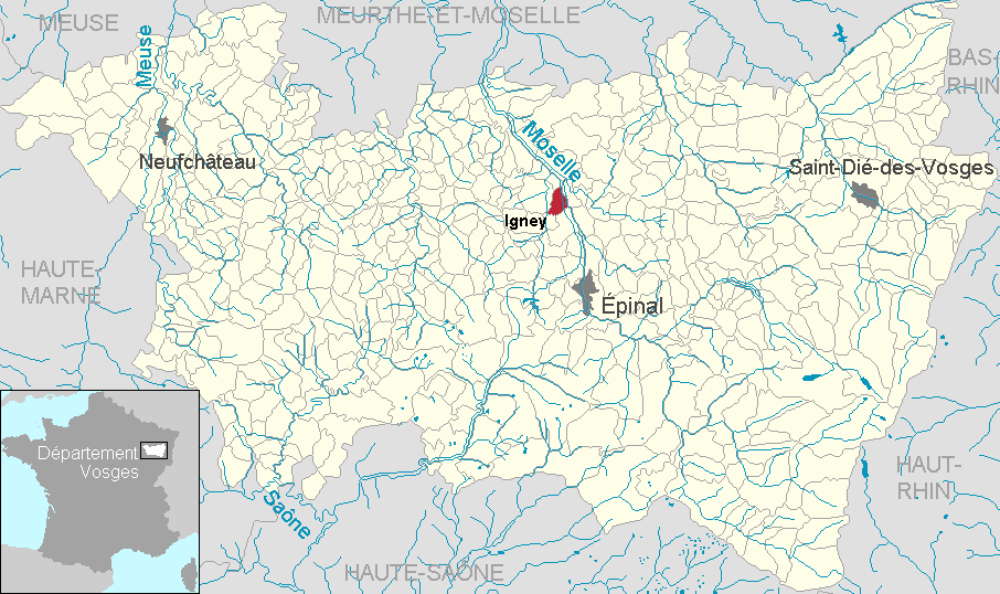 Igney in the department of Vosges, Lorraine, France